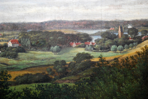 Painting in Lyngby-Taarbæk Stadsarkiv showing Lyngby at present day Lyngby Hovedgade in about 1820. The Building to the left is "Det Hvide Palæ".